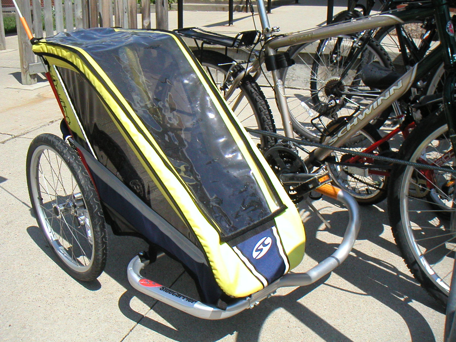 Bicycle side car. Taken by Andrew Dressel